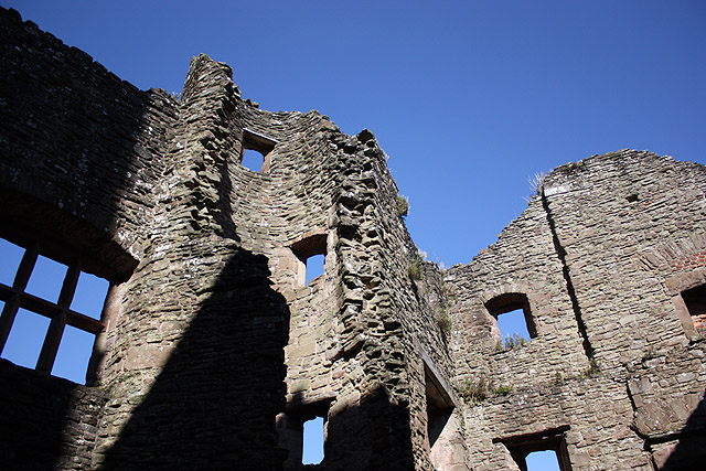 Castle ruins, Ludlow Standing inside what would have been the Judges' Lodgings. The large square-headed window tells us this was built during the Elizabethan period. The castle became Crown property in 1461 and remained a royal palace for the next 350 years, except for a brief period during the Civil War and Commonwealth.